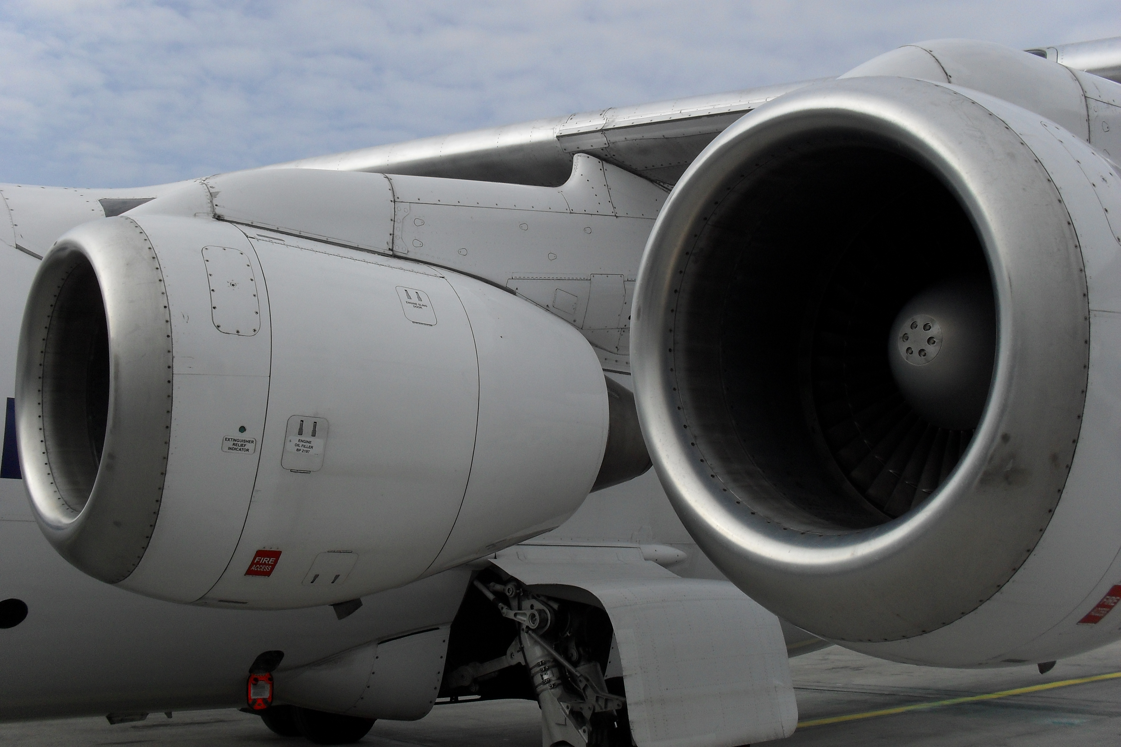 Avro RJ Jet engines